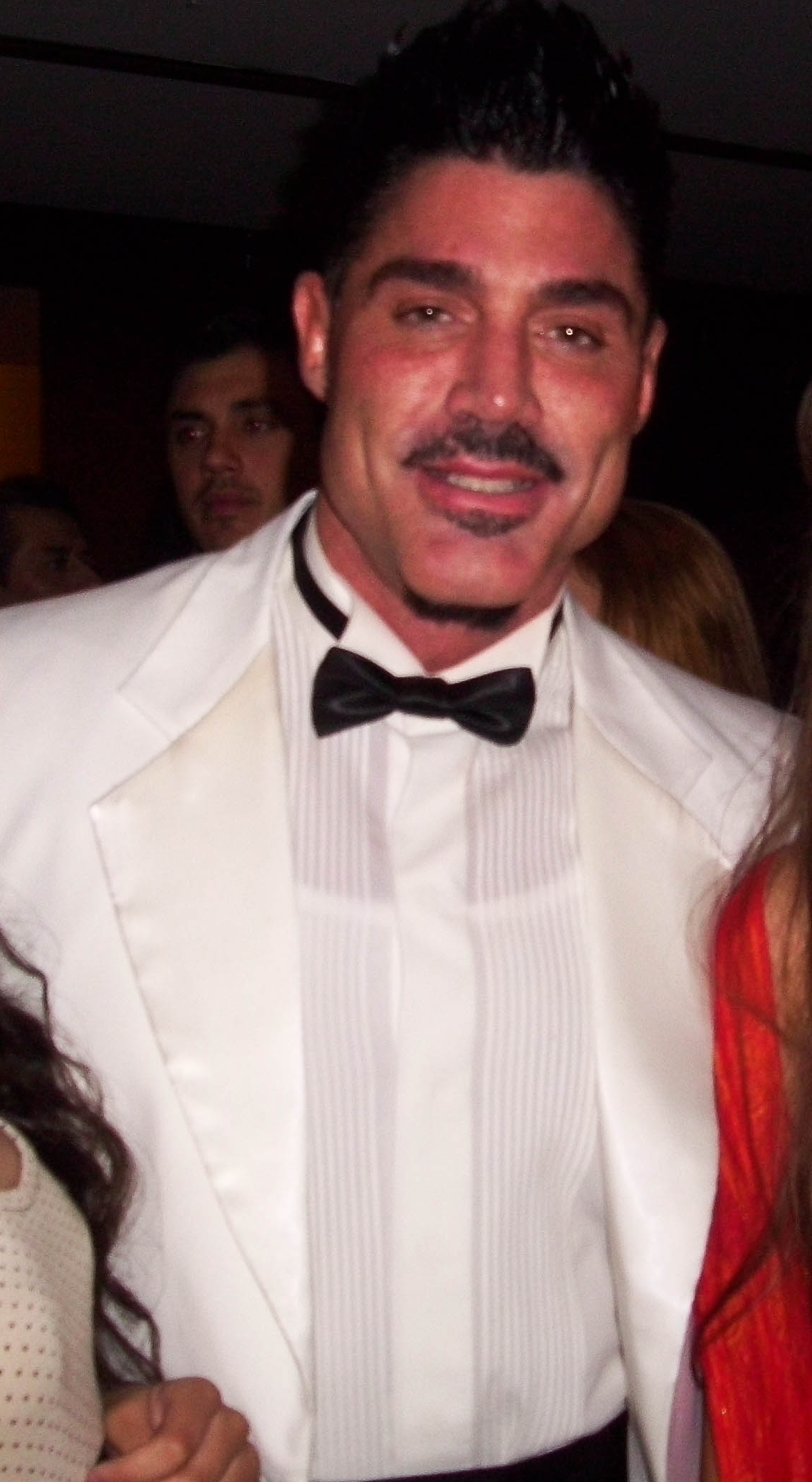 This photo was taken on November 16, 2009 using a Kodak EasyShare M1073 IS. Cropped from Ricardo Fort.jpg